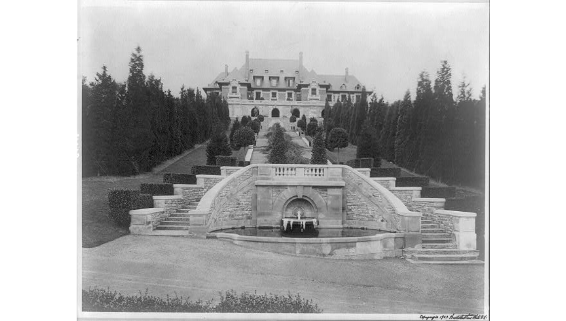 "Blairsden", a large mansion owned by C.L. Blair: view of house past terrace gardens, ca. 1903.